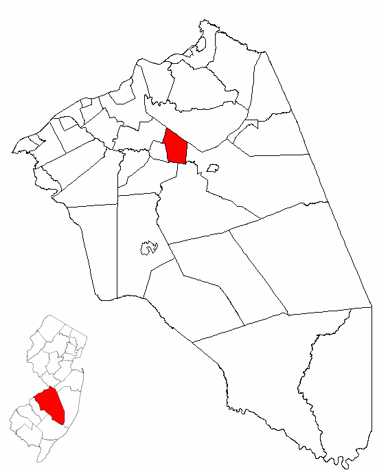 Map of Burlington County highlighting Eastampton Township